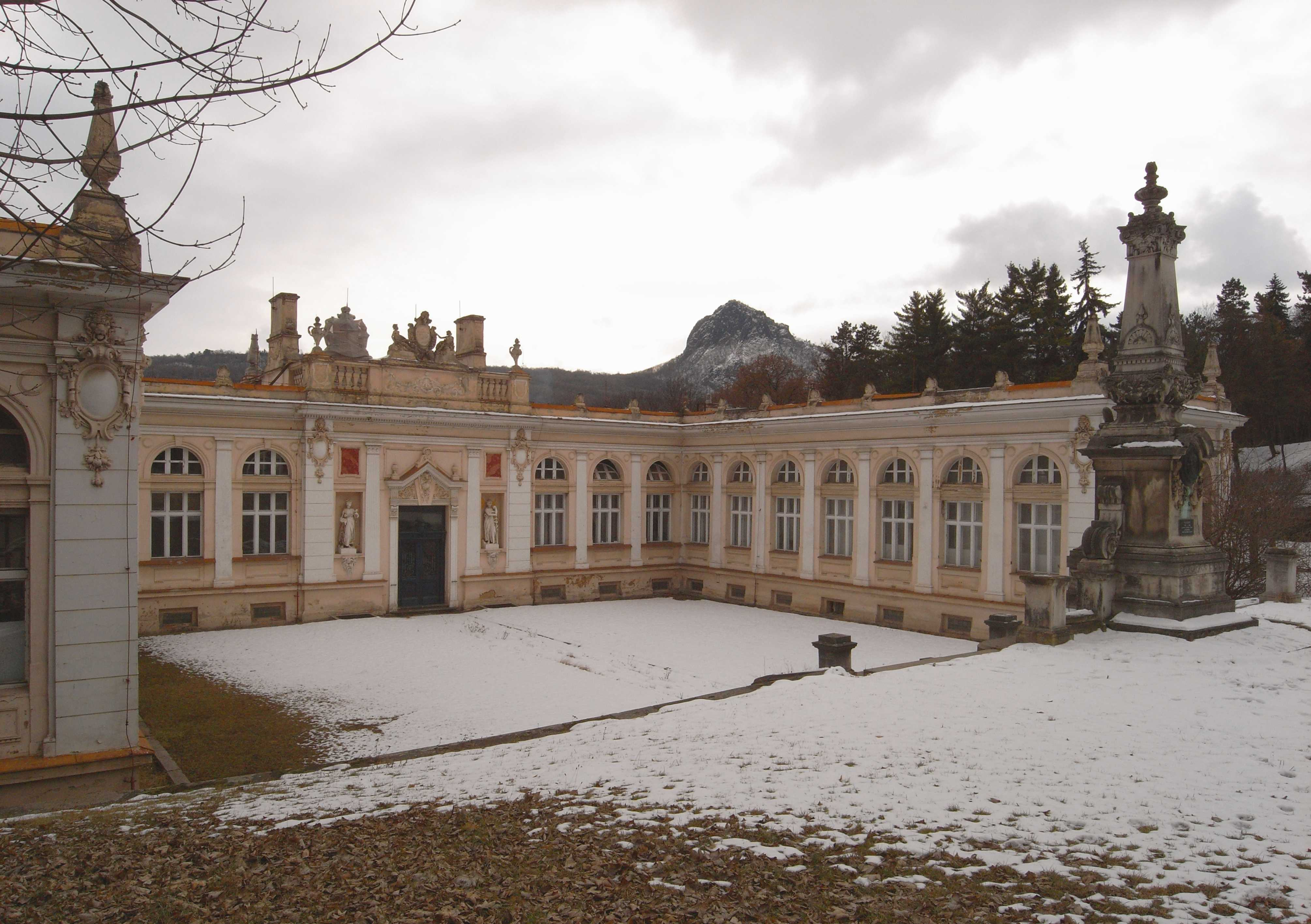 Bílina, old spa complex Lázně Kyselka (Northern Bohemia, Czech Republic)